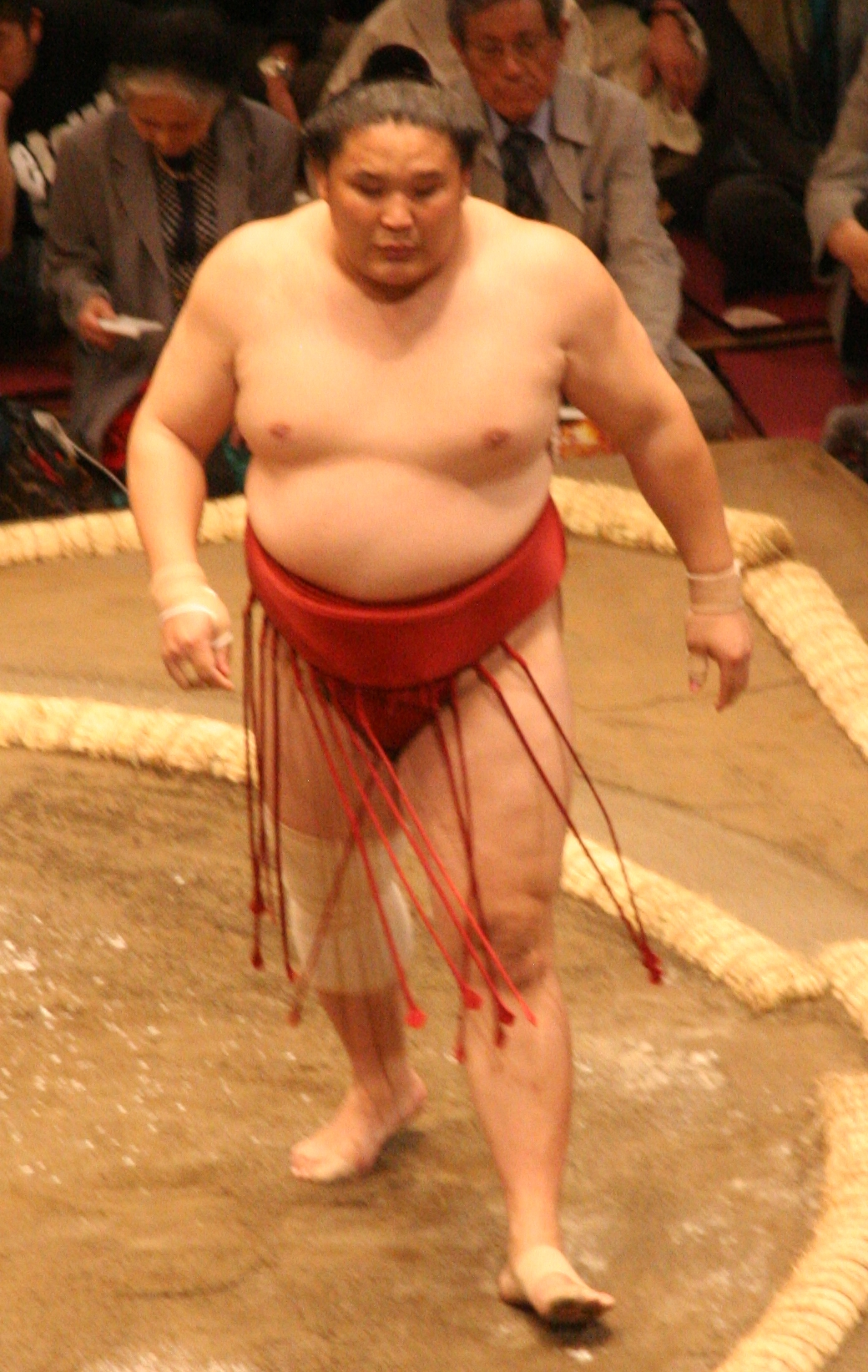 First day of 2009 May Sumo Tournament in Tokyo, Japan - Asasekiryu